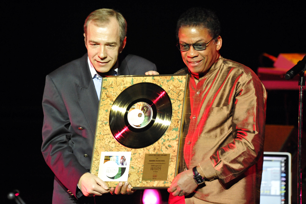 Herbie Hancock presented with Gold Record Award by Kazimierz Pułaski of Sony Music Poland. November 29, 2011 in Sala Kongresowa, Warszawa, Poland.